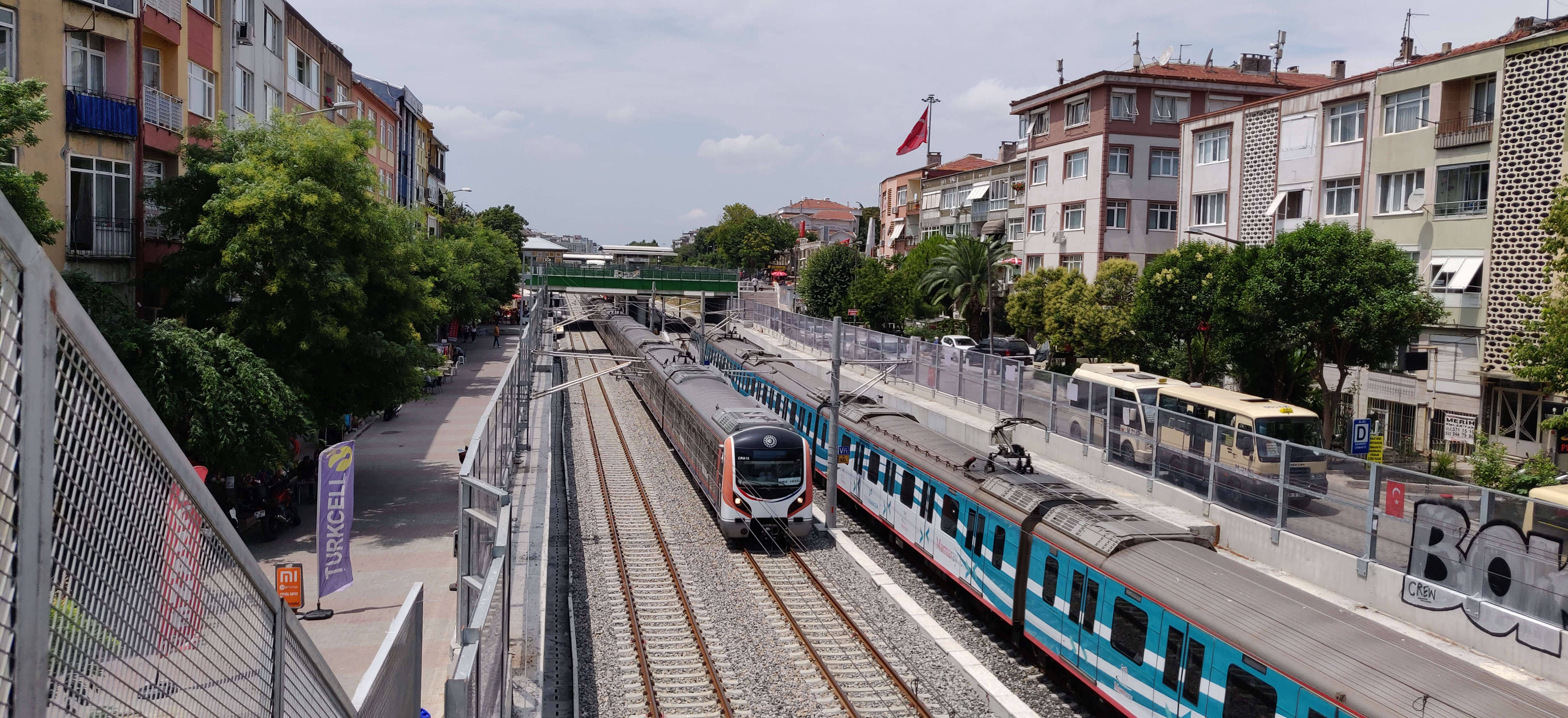 Two Marmaray trains meet at Bakirköy.